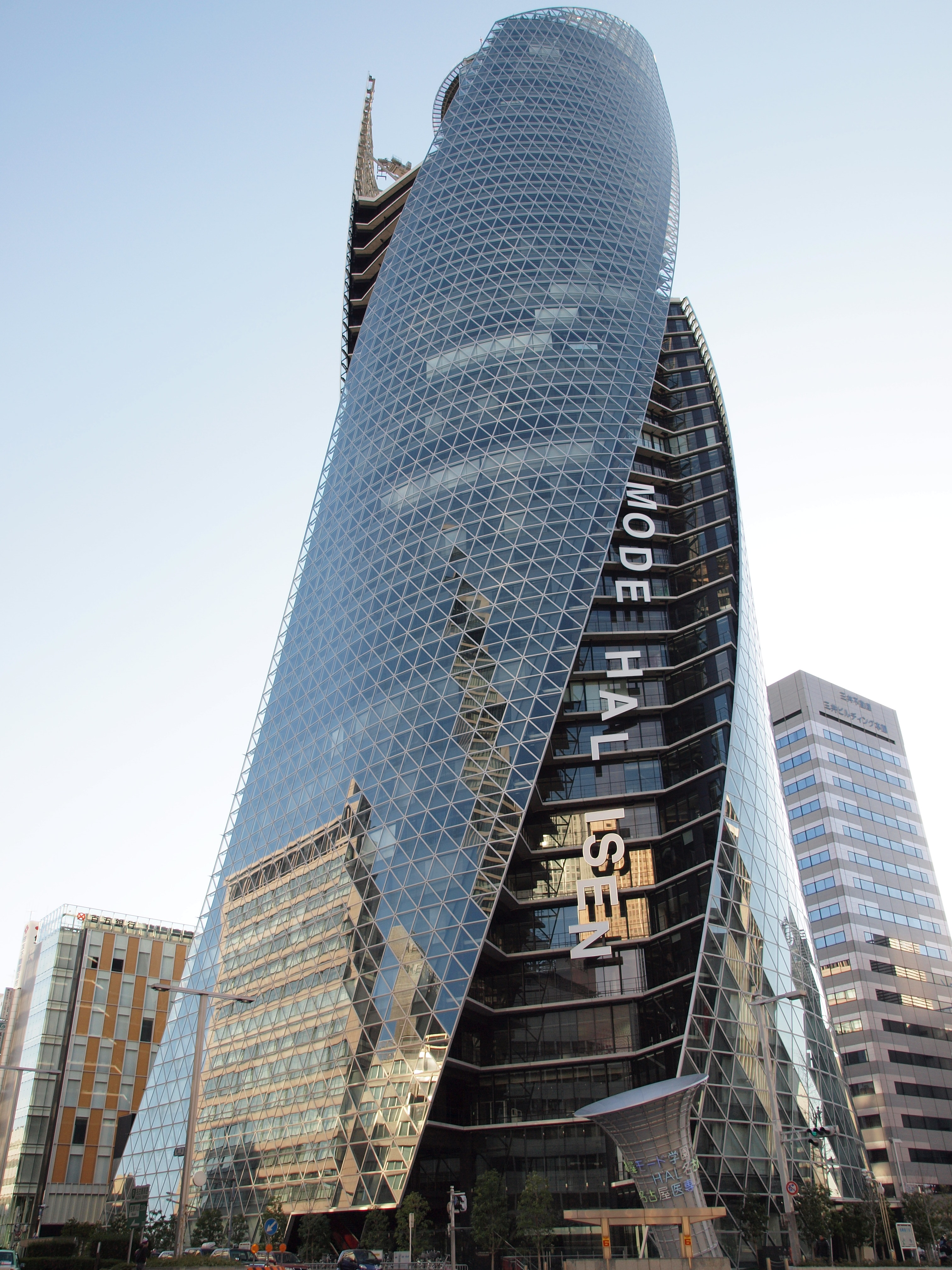 Nagoya Mode Academy Spiral Towers